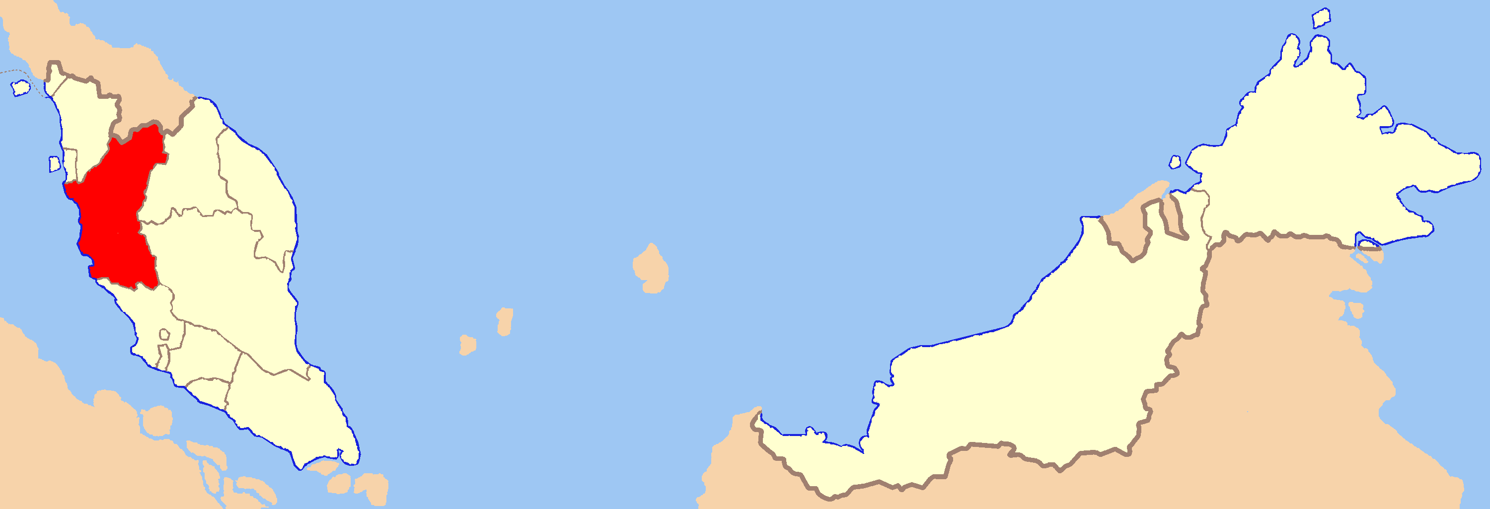 Map of Malaysia with Perak highlighted